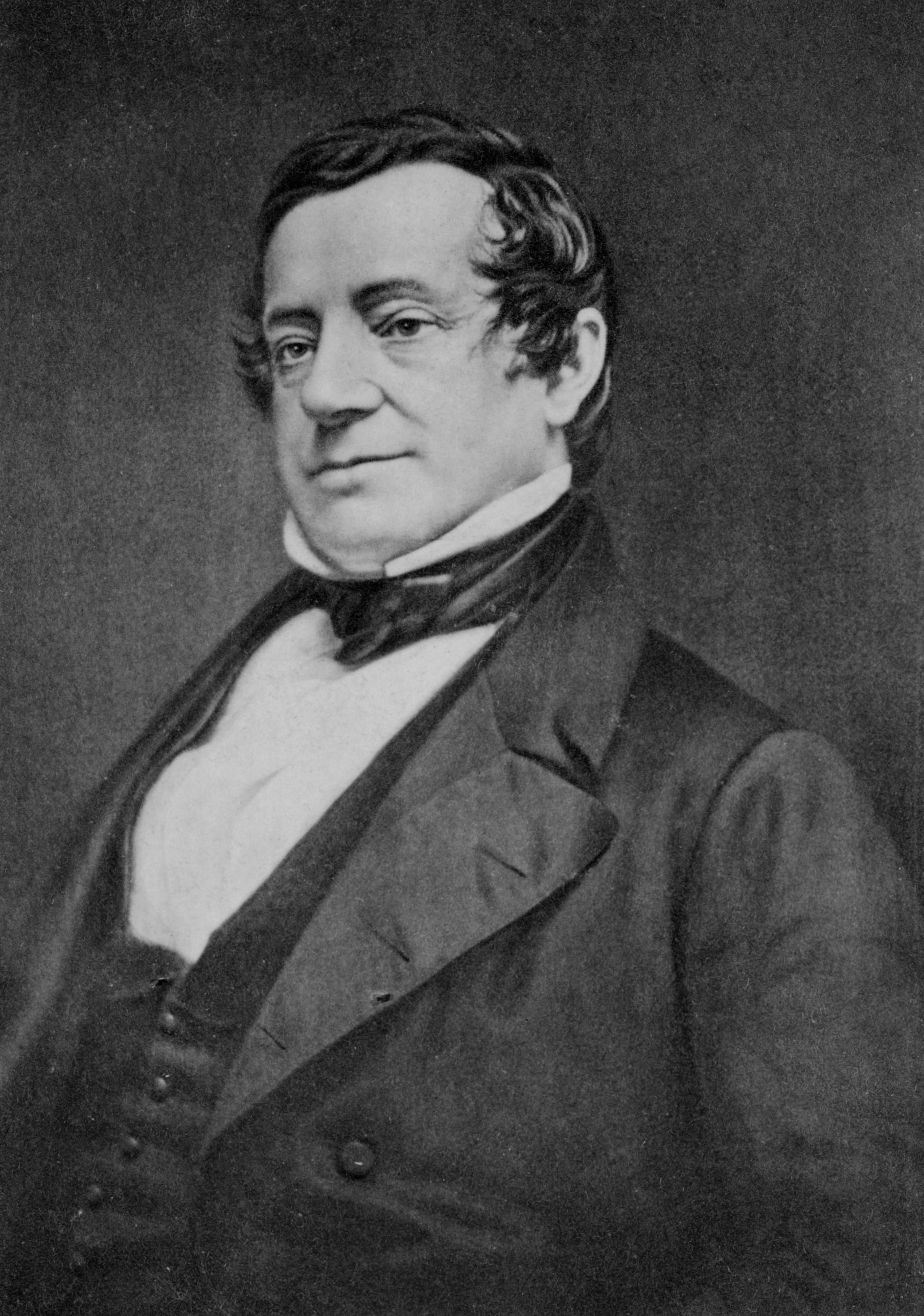 A portrait of Washington Irving